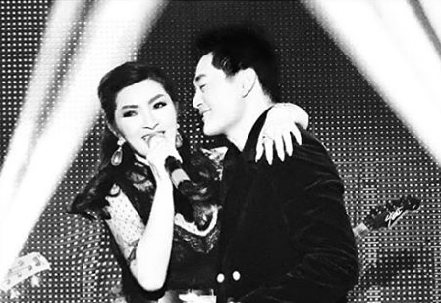 Nguyen Hong Nhung is one of Lam's favorite singers in duets